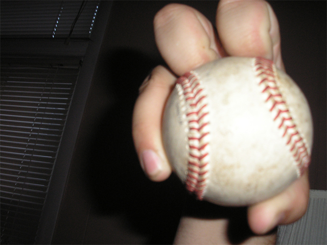 Front view of a knuckleball grip.